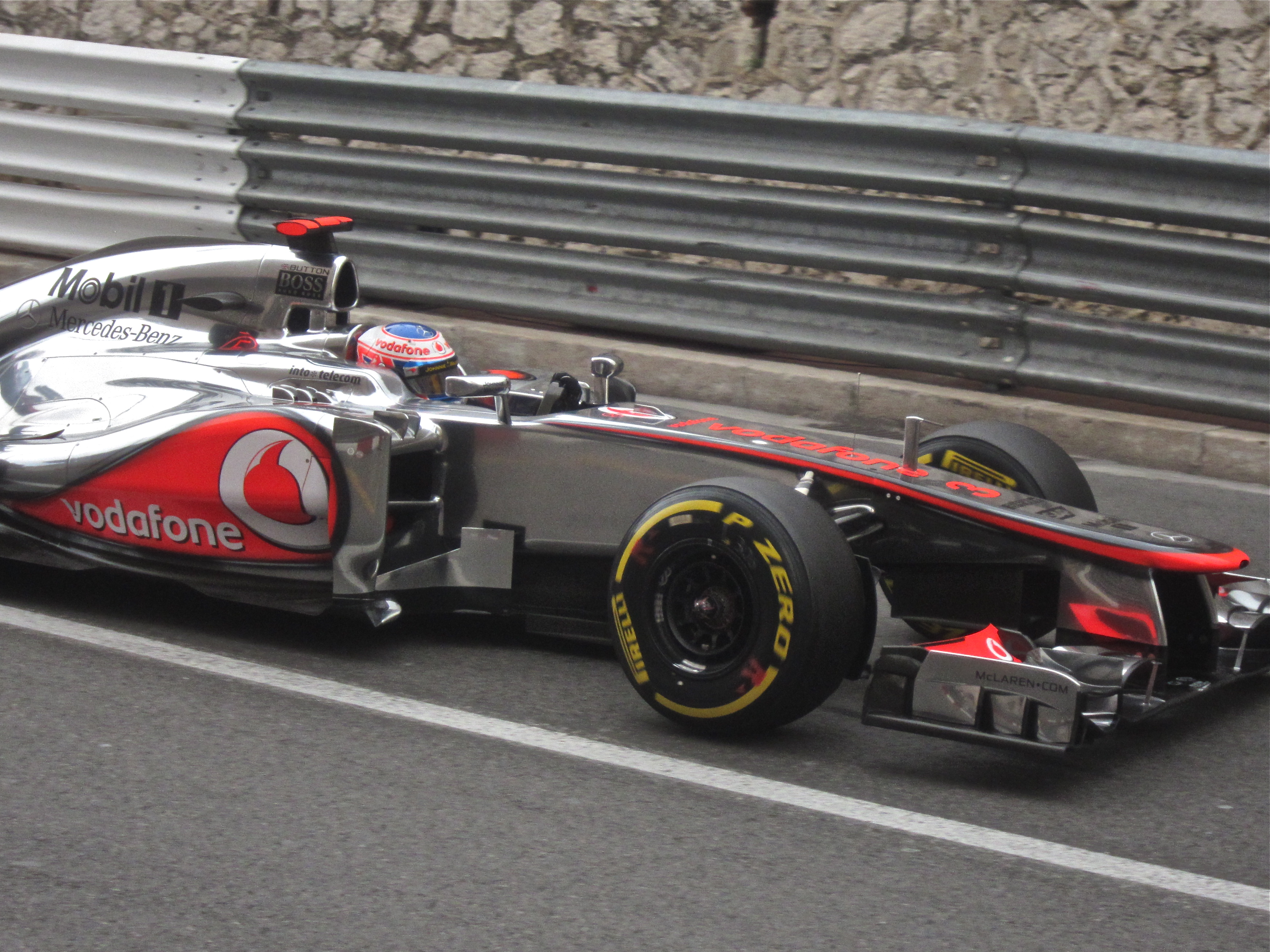 Jenson Button at 2012 Monaco Grand Prix